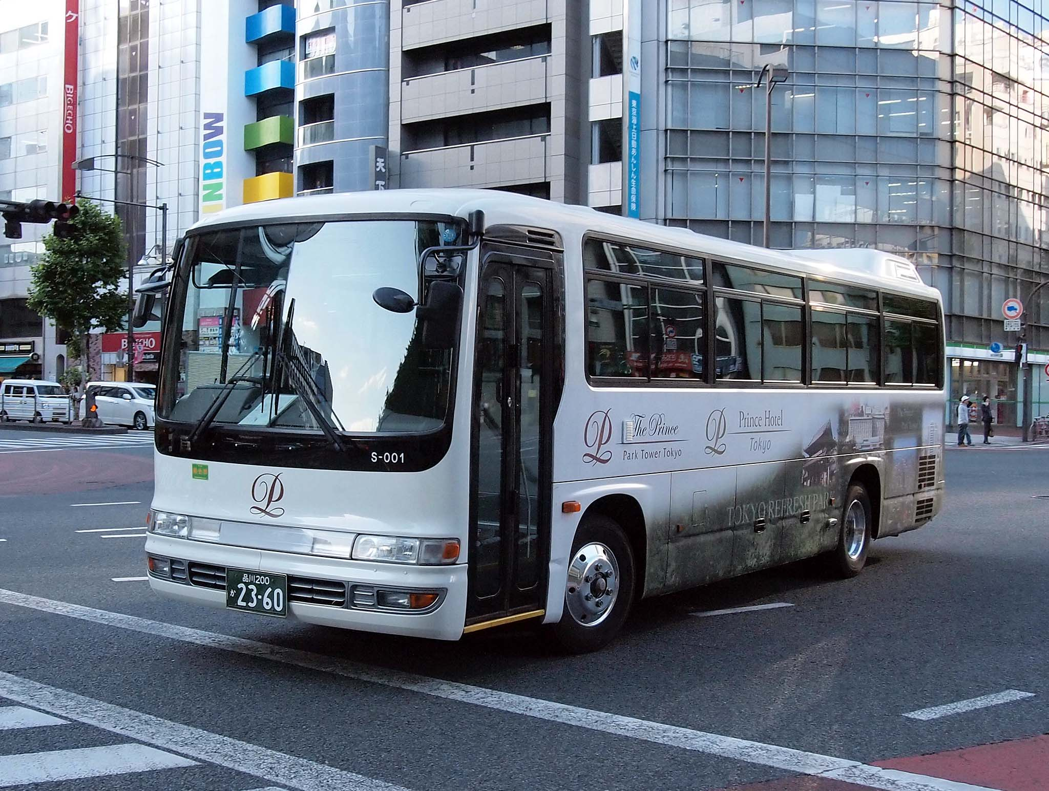 Fleet of Seibu Sogo Kikaku, Shuttle bus of Tokyo Prince Hotel and The Prince Park Tower Tokyo from Hamamatsucho Station. Model: Isuzu Gala Mio BDG-RR7JJBJ License plate: TKS200KA2360